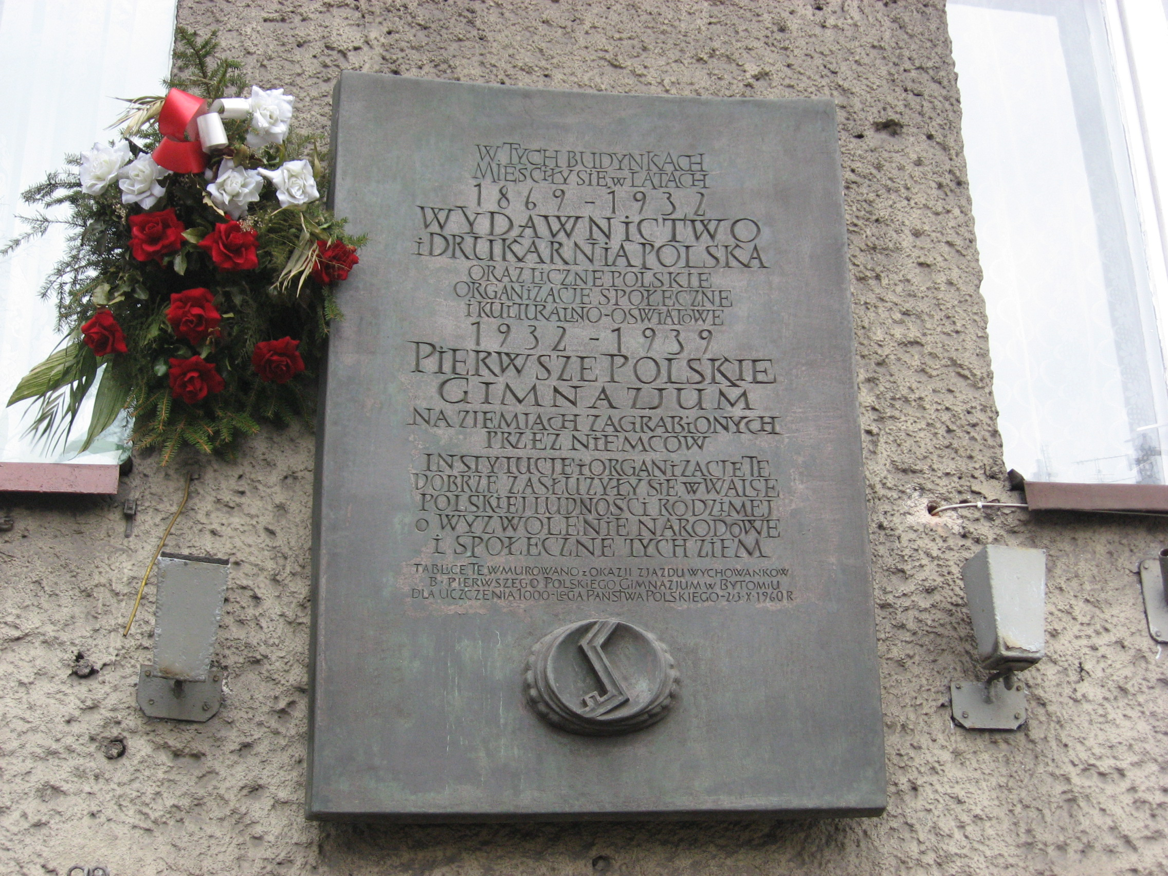 Commemorative plaque for organisations of the Polish minority in Germany in Bytom